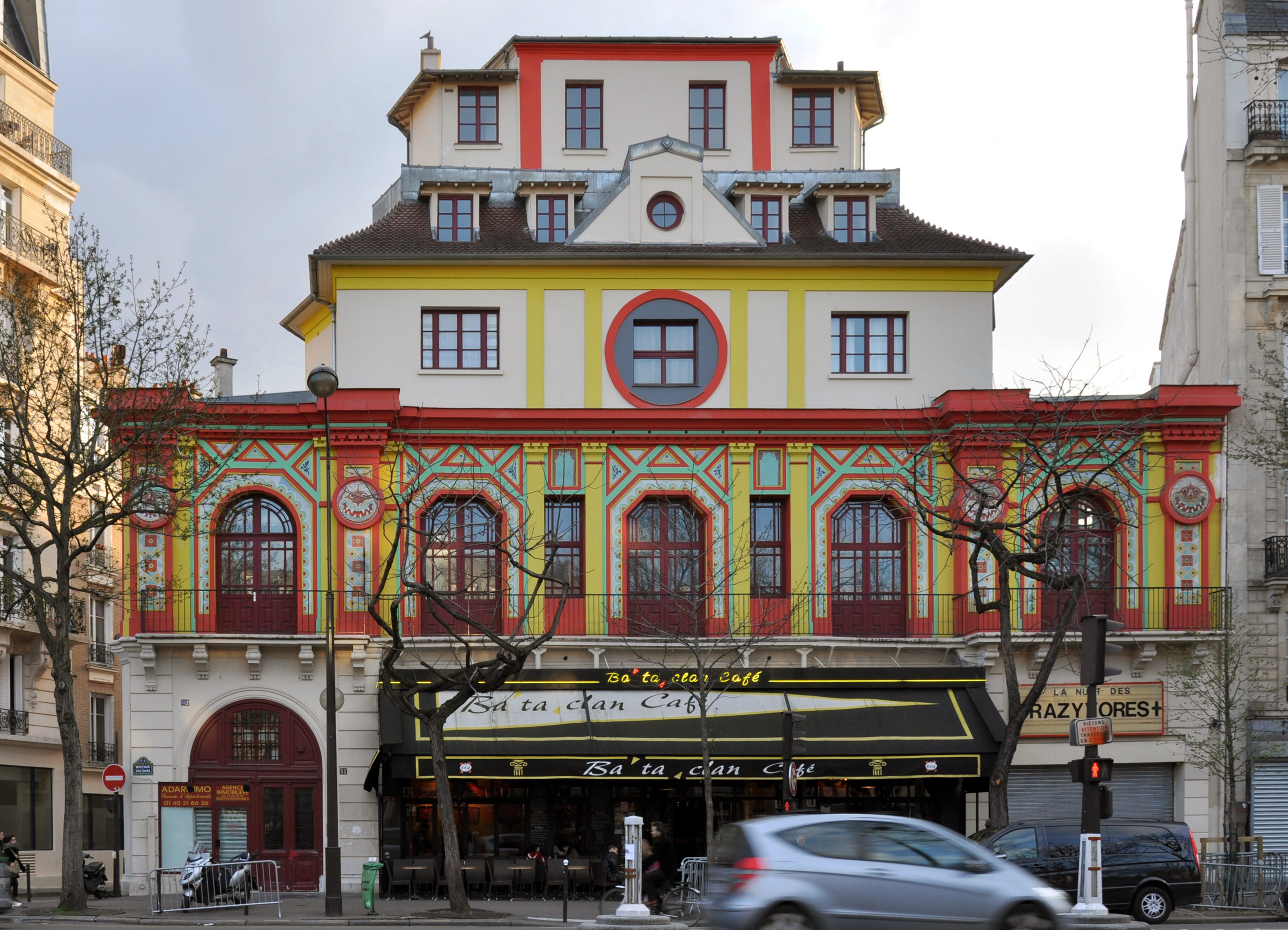 Bataclan theater, Paris, France.